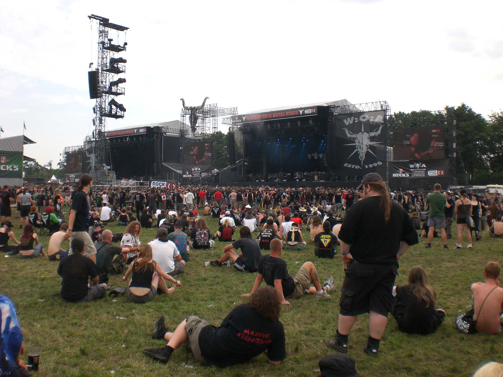 The two main stages at the Wacken Open Air Festival 2008.